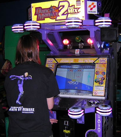 Dance Maniax 2nd Mix Arcade Game. Taken at Memories Games in St. Joseph, MO. Depicted is someone playing the Dance Maniax 2nd Mix arcade game. This particular player is playing the game in the "Doubles" mode, where all eight sensors are used by a single player.